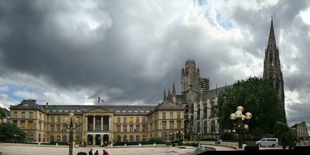 Rouen, Seine-Maritime, Normandie, France. City Hall and Church of St. Ouen.